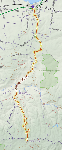 Map of Old Beechy Rail Trail Cartography by Steve Bennett, data by OpenStreetMap contributors.